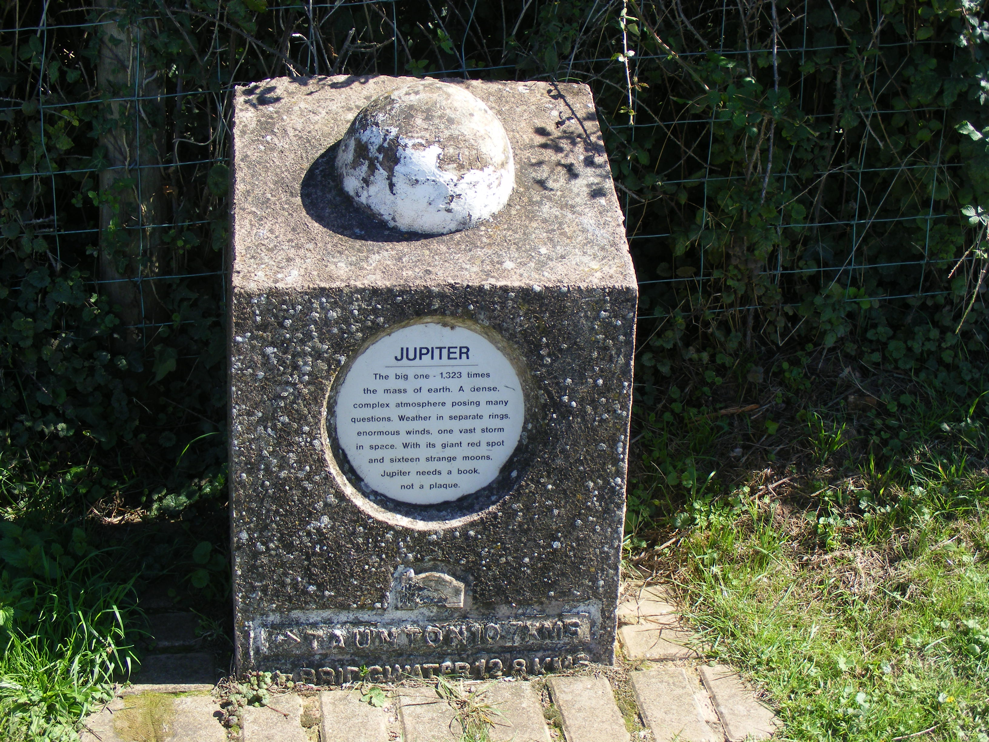 One of the canal side markers representing the planets on the Somerset Space Walk